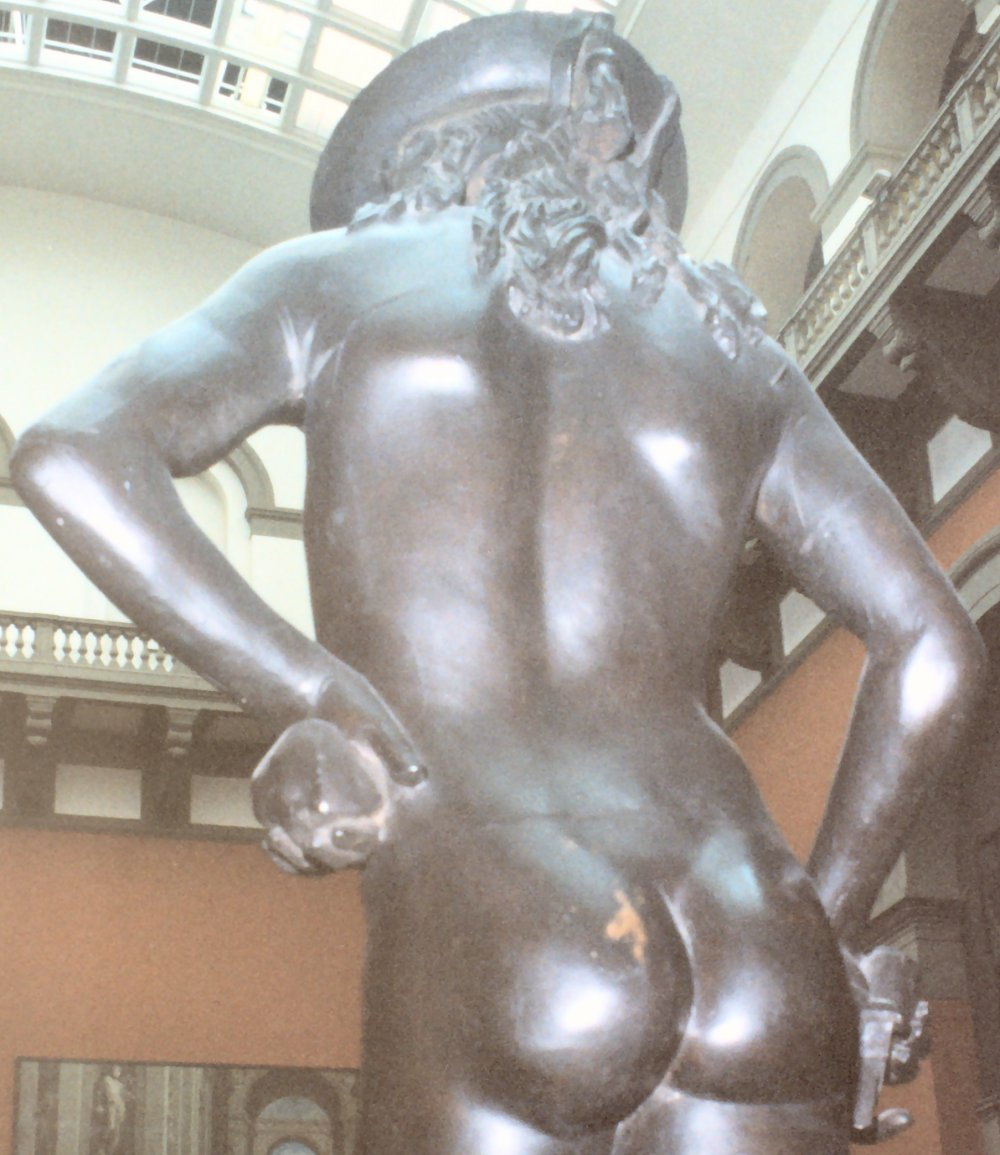 Painted plaster replica of Donatello's bronze David in the Cast Courts of the Victoria and Albert Museum, London. Low wide angle back view, detail of torso. Note broken sword, peeling paint on left buttock, seams between plaster sections, and small projection behind right shoulder which is not a feature of the original. Photo by User:Lee M, 2000. Flash/skylight. Brightness and contrast manipulated for clarity.